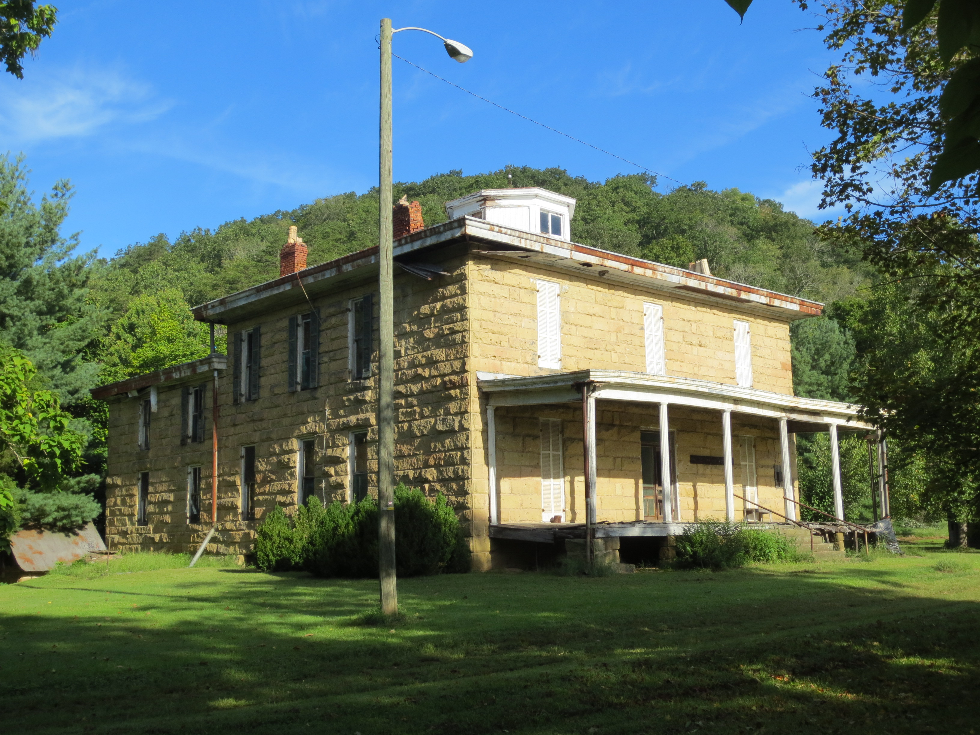 Gen. John McCausland House, U.S. Route 35; also Grape Hill Leon